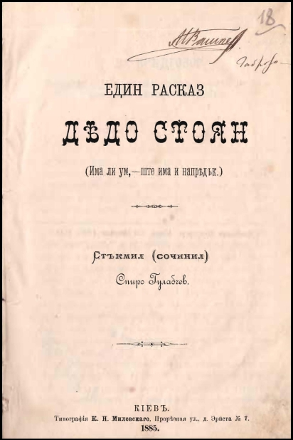 Dyado_Stoyan